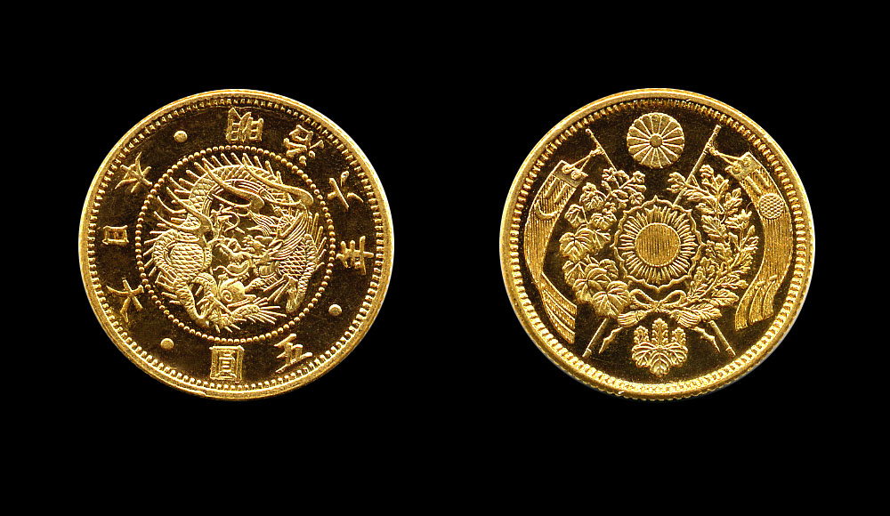 5Yen Gold 1873(proof)